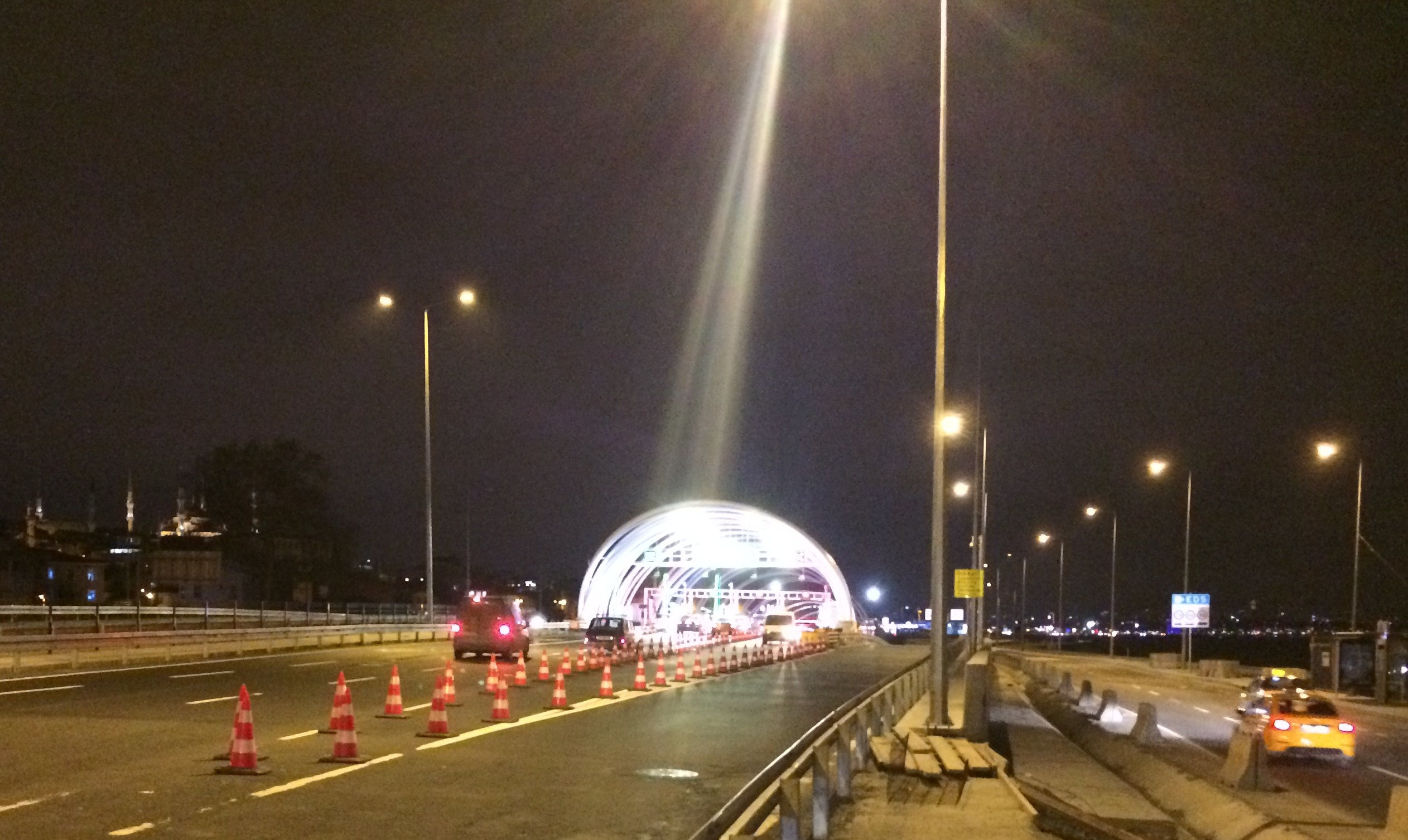 Entrance to Eurasia Tunnel on Kumkapı side